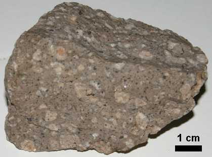 Sample of bedrock from near summit of O'Leary Peak, Arizona. Andesite Porphyry. Collected March 1998 by Jim Stuby (talk) 02:58, 1 November 2008 (UTC), uploaded photo by Jim Stuby (talk) 02:58, 1 November 2008 (UTC) Oct. 2008.